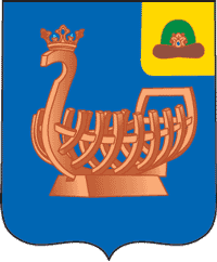 Coat of arms of Russian town Kasimov